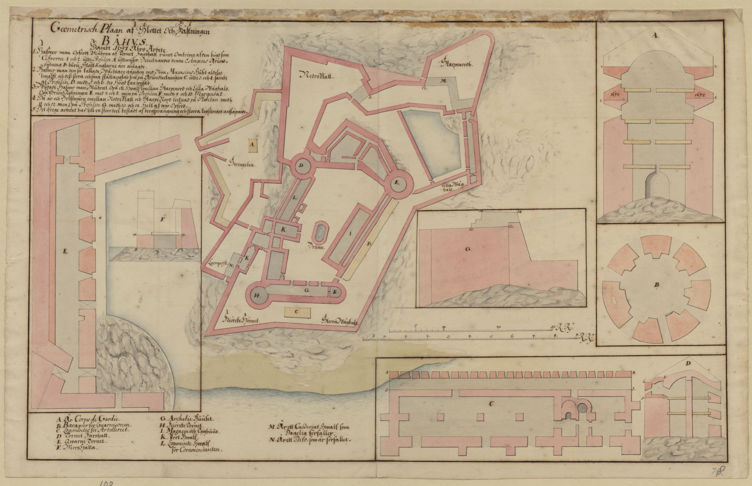 Drawing of the rebuilding of Bohus fortress 1697 with some buildings in detail.